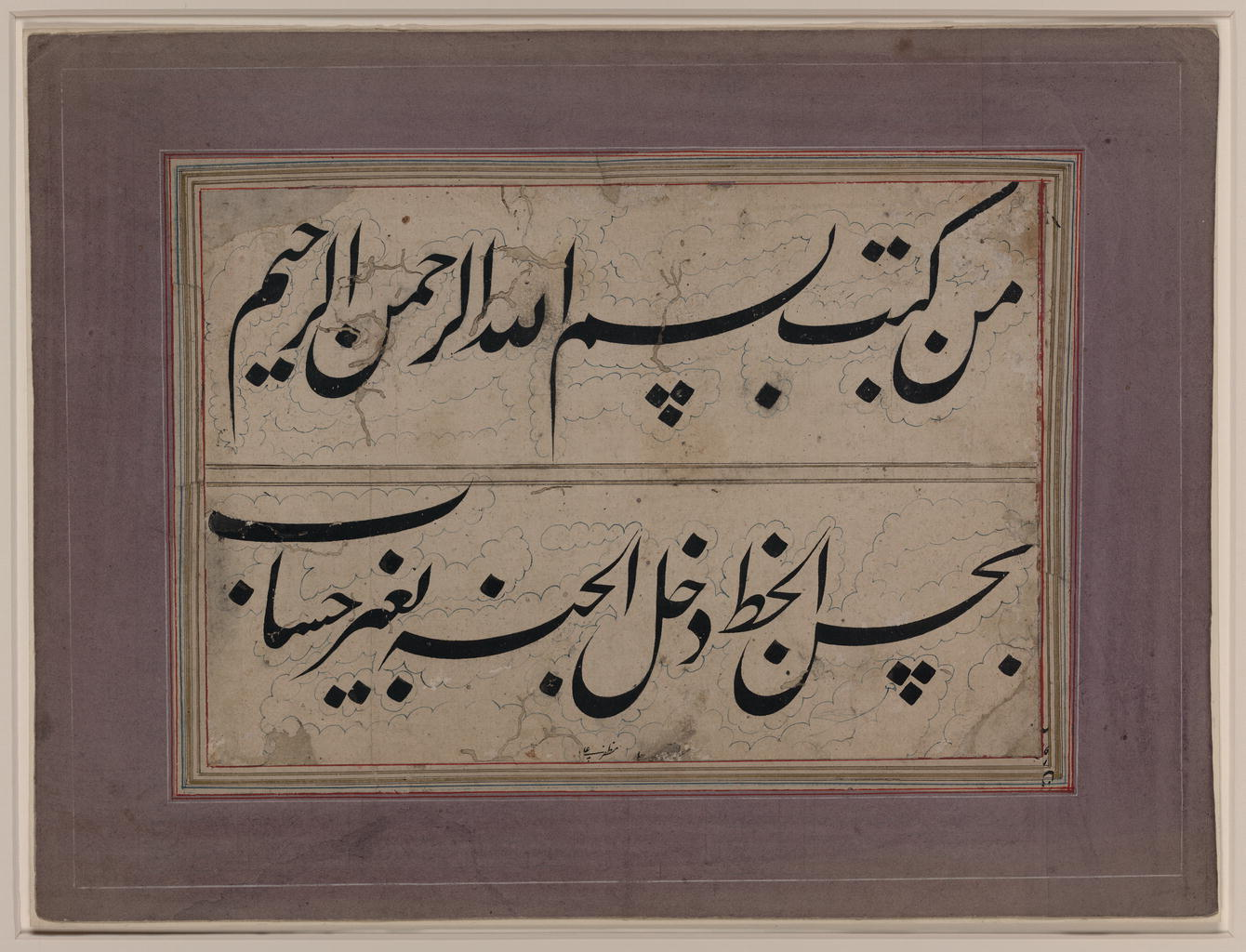 This calligraphic sheet states that "whoever writes the bismillah ("in the name of God, the Beneficent, the Merciful") in a beautiful writing enters Paradise without judgment." This kind of framed calligraphic inscription pasted onto a pasteboard is called a lawha (Arabic) or levha (Turkish), which means literally "tablet." These kinds of compositions pasted onto cardboards are typical of Ottoman calligraphic practices during the 18th-19th centuries.